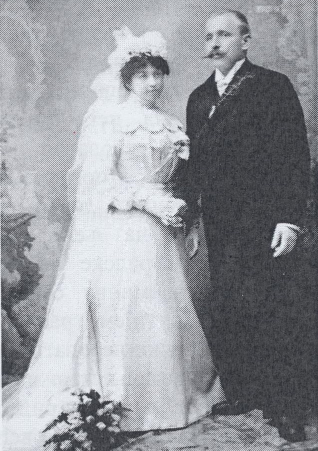 Karlo Skacel with his wife on the day of their wedding, 1900 in Belgrade